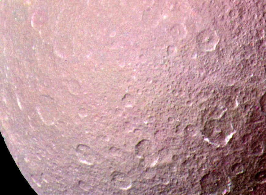 Original Caption Released with Image: NASA's Voyager 1 took this high resolution color image of Rhea just before the spacecraft's closest approach to the Saturnian moon on Nov. 12, 1980 from a range of 128,000 kilometers (79,500 miles). The area shown is one of the most heavily cratered on Rhea, and indicates an ancient surface dating back to the period immediately following the formation of the planets 4.5 billion years ago. The photograph shows surface features about 2.5 kilometers (1.5 miles) in diameter, similar to a view of Earth's Moon through a telescope. Other areas of Rhea's surface are deficient in the very large (100 kilometers or 62 miles or larger) craters, indicating a change in the nature of the impacting bodies and an early period of surface activity. White areas on the edges of several of the craters in the upper right corner are probably fresh ice exposed on steep slopes or possibly deposited by volatiles leaking from fractured regions. The Voyager Project is managed for NASA by the Jet Propulsion Laboratory, Pasadena, California.